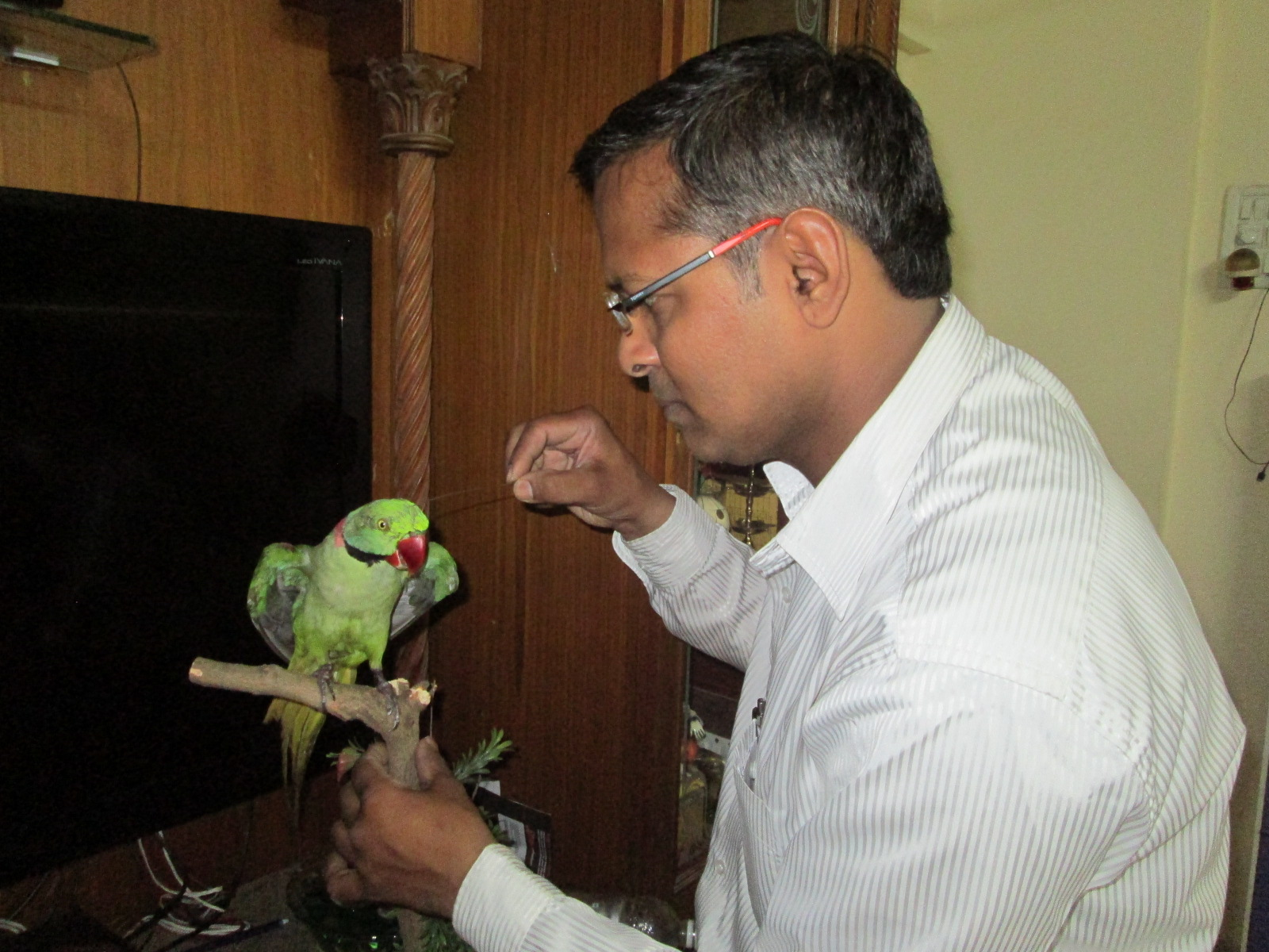 India's only officially recognized taxidermist Dr Santosh.Gaikwad doing the finishing touches on 22 year old Alexandrine parakeet "Mittoo(1992-2014)", unofficially India's best talking parakeet.